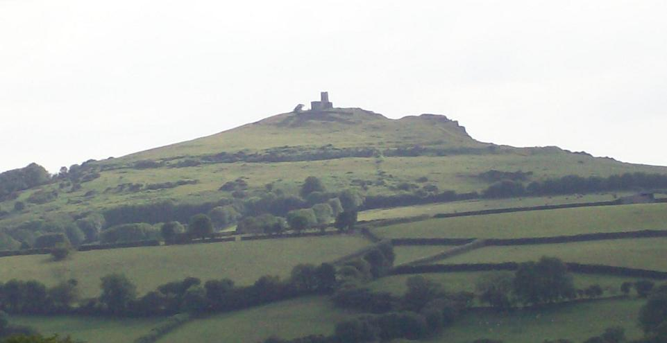 A Photograph of Brent Tor